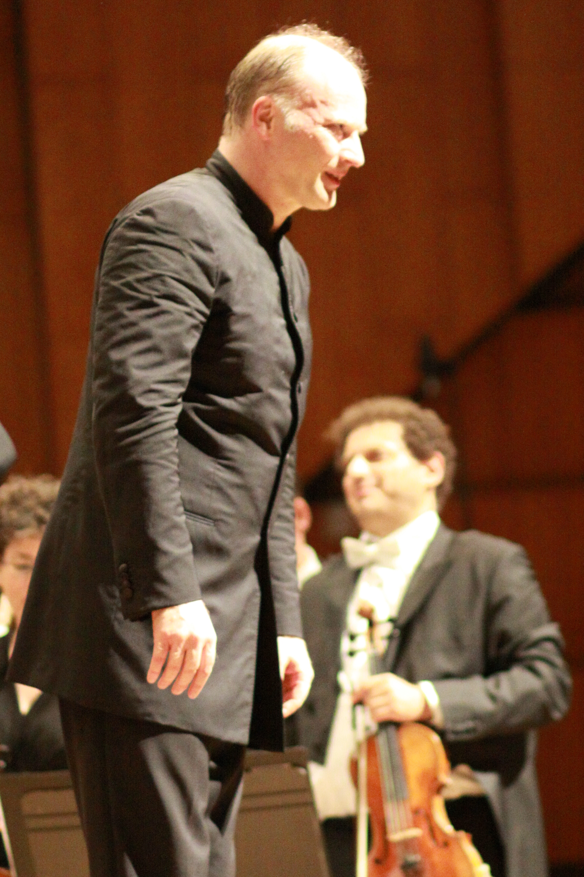 Gianandrea Noseda. Concert with Israel Philharmonic Orchestra. Tel Aviv, July 08, 2013.